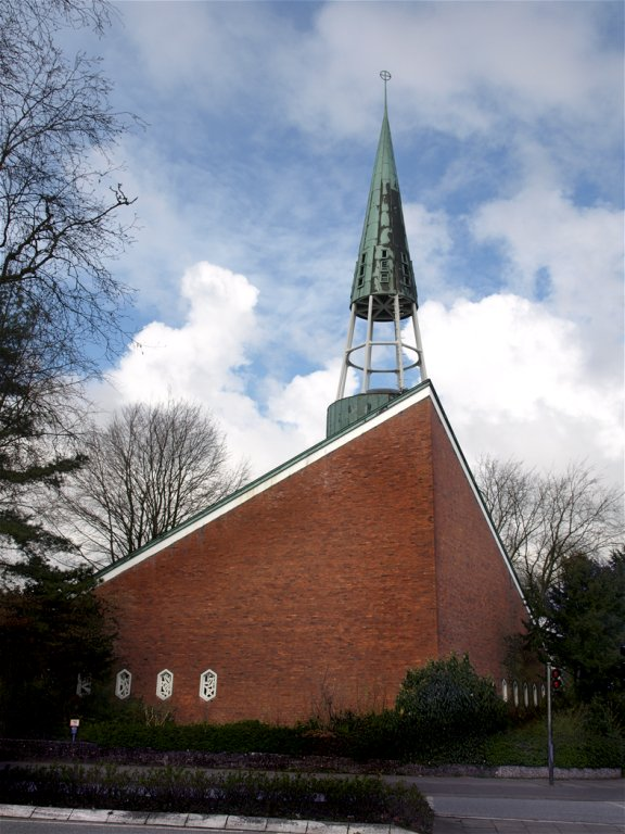 Elmshorn (Sleswick-Holstein, Germany), church "Ansgarkirche" (ev.luth.), photo 2008